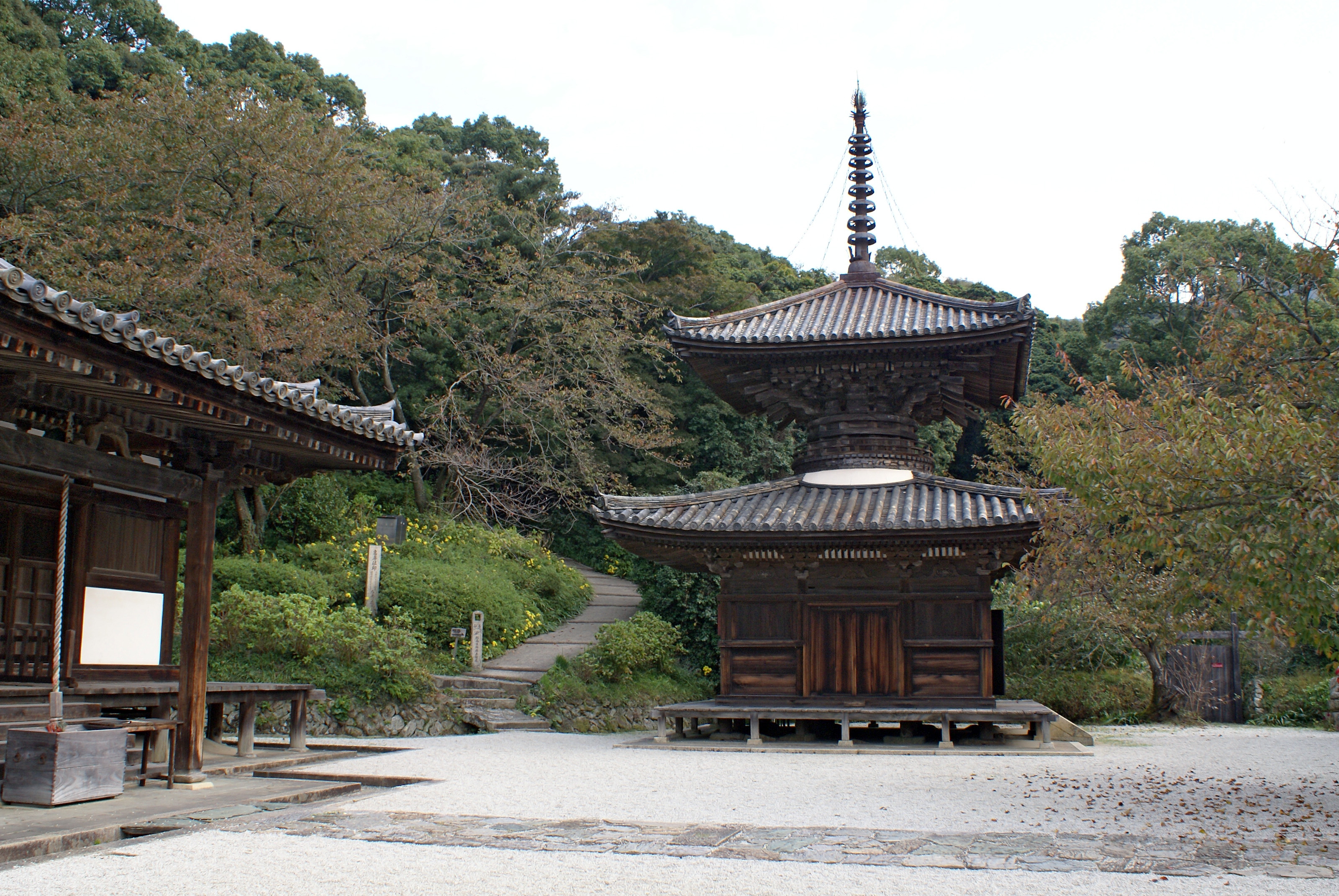 Tahōtō of Chōhō-ji is a Japan's National Treasure in Kainan, Wakayama prefecture, Japan It was rebuilt in 1357.